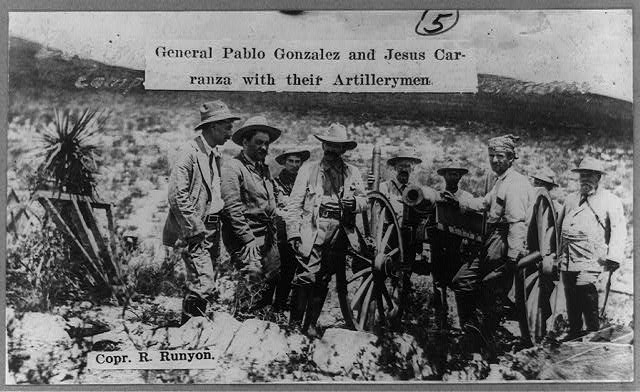 General Pablo Gonzales and Jesus Carranza with their artillerymen during the Mexican Revolution 1914.